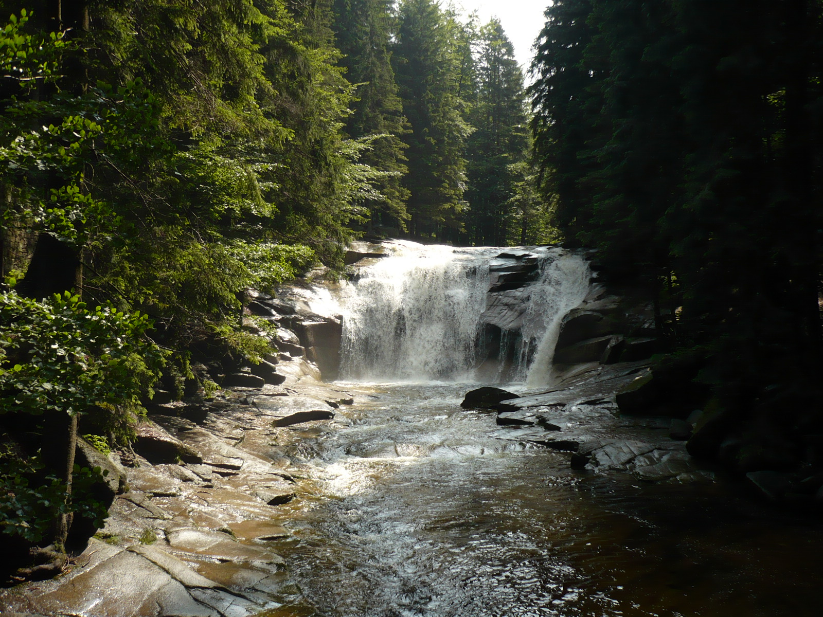 Watterfall Mumlavsky in krkonoše, Czech Republic